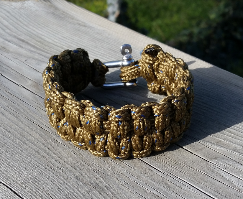 Survival bracelet with tying "Blaze Bar"